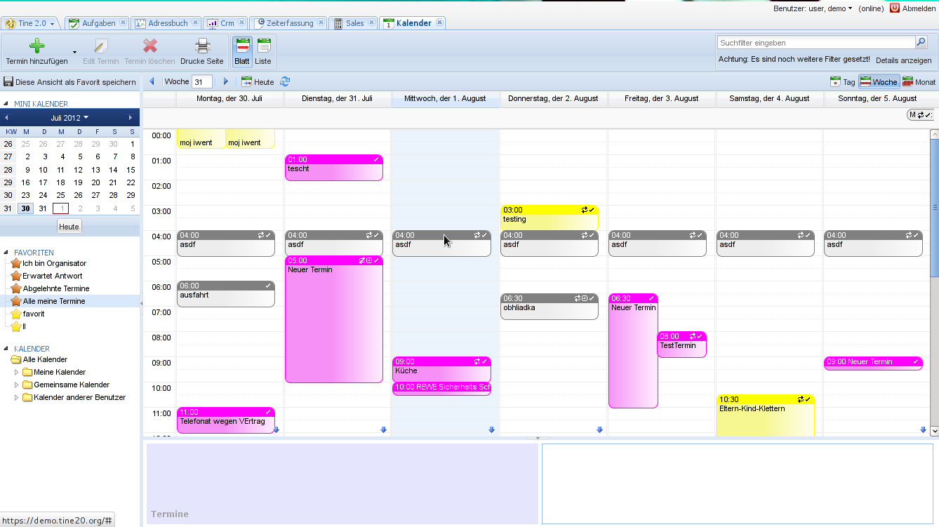 This Image shows the Tine 2.0 demopage calendar.